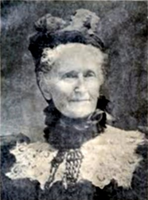 Persis Foster Eames Albee